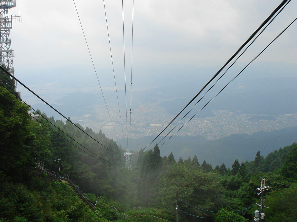 The view of Kyoto from Eizan Ropeway.